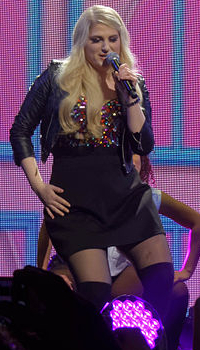 Q102 Philly Jingle Ball 2014